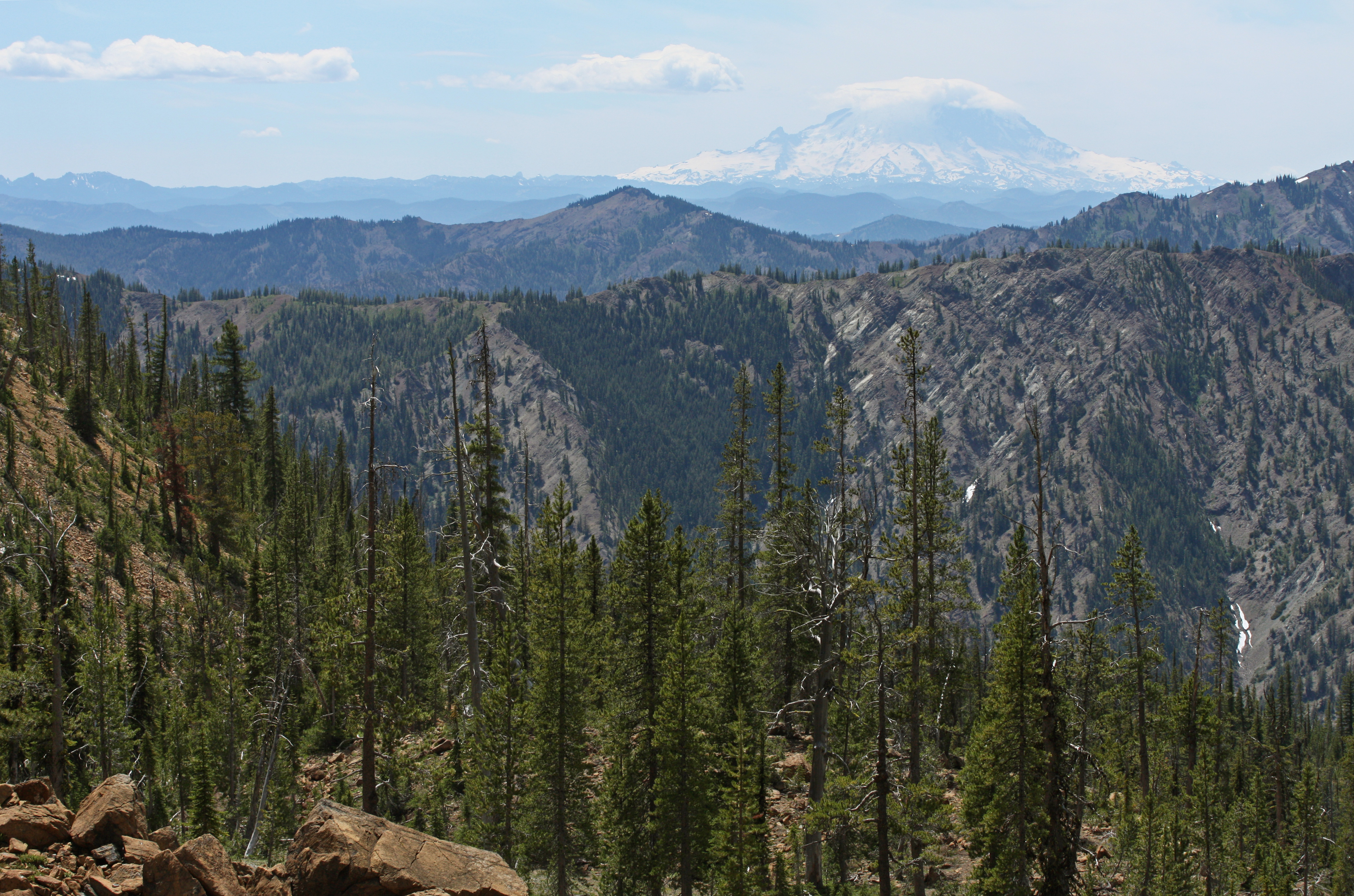 Mount Rainier (right center skyline, 14,411 feet, 4392 m), Elbow Peak (center, middle distance, 5720+ feet, 1743+ m)